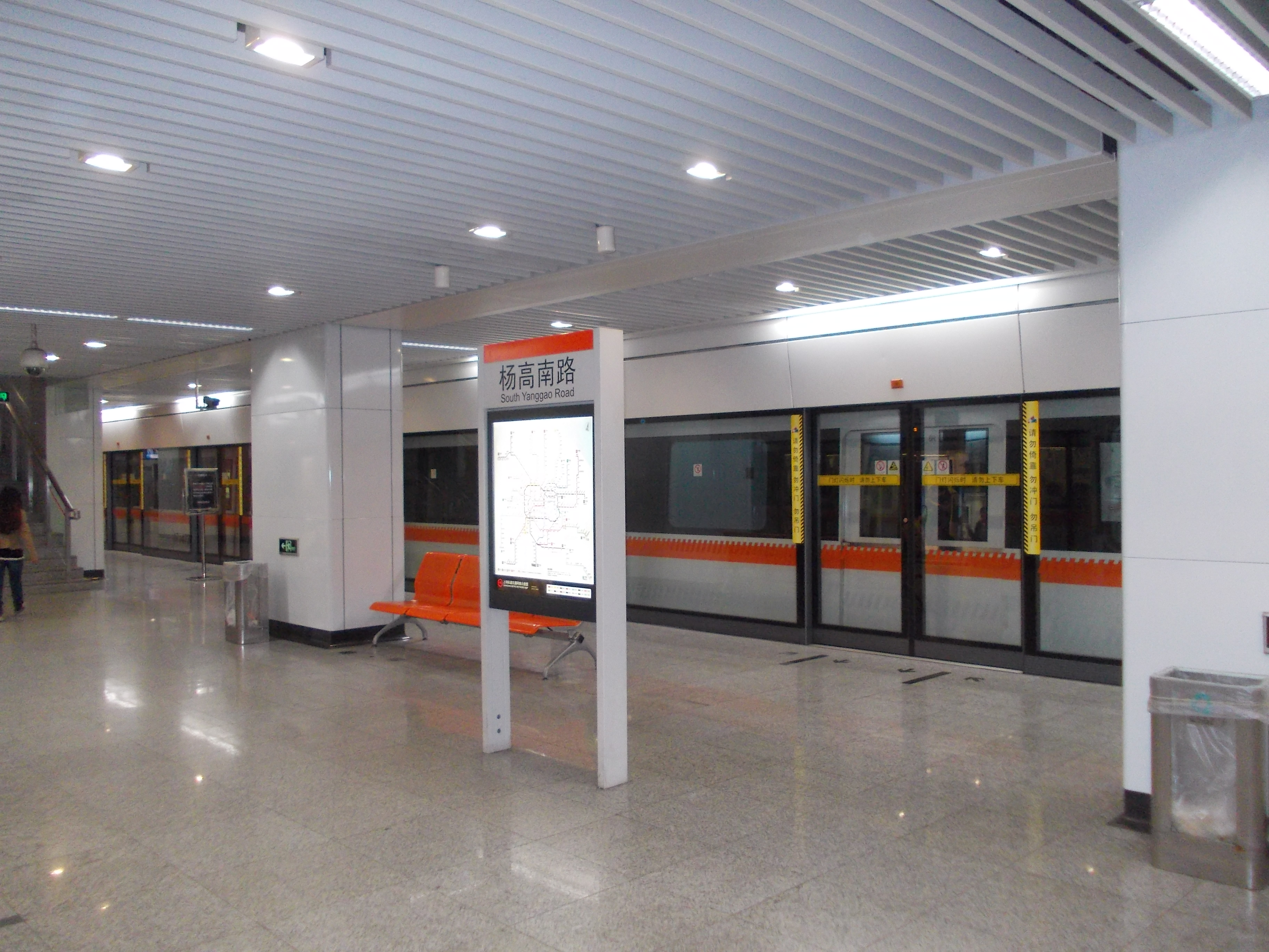 Shanghai Metro - Line 7 - South Yanggao Road